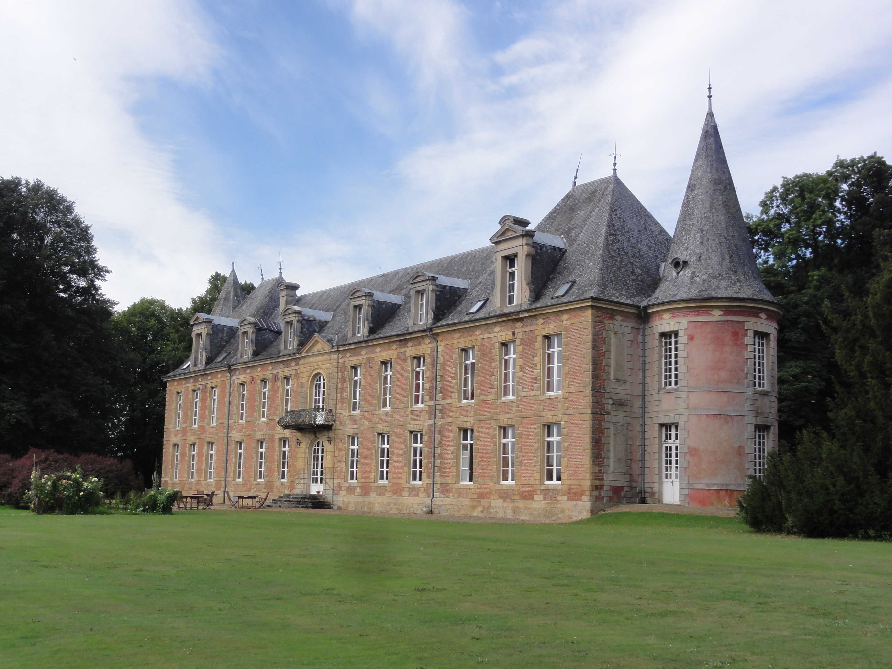 Fagnon (Ardennes) Abbaye Notre-Dame de Sept-Fontaines (2)